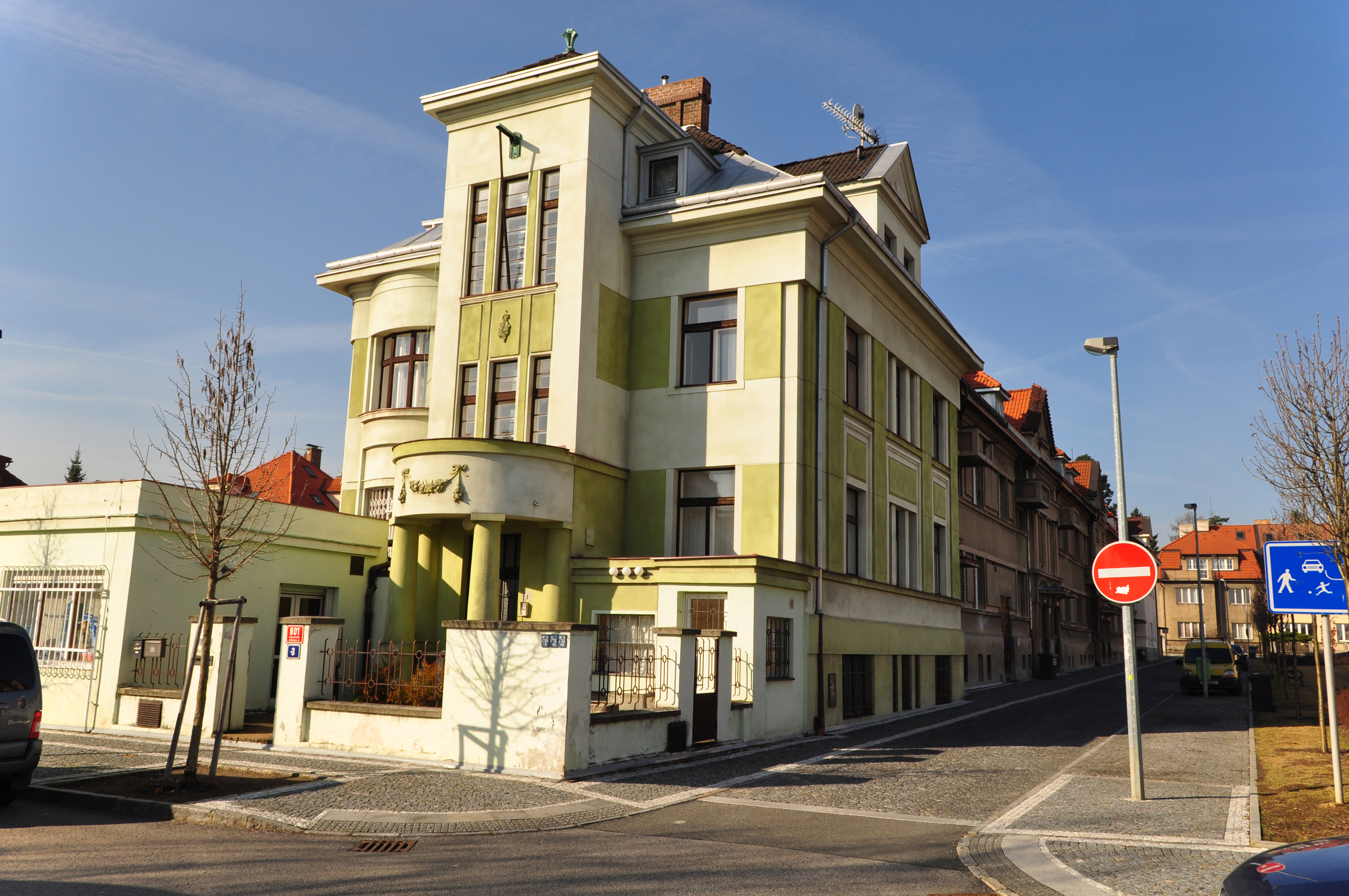 Former Houtyš - Pub "U Tyšerů"